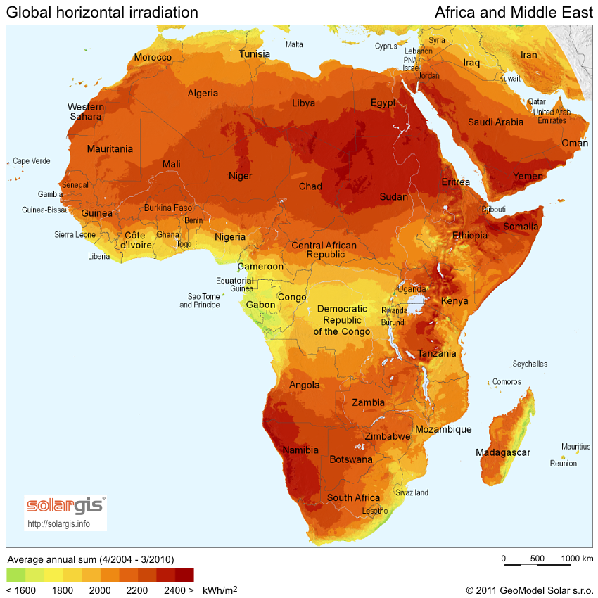 Solar Radiation Map: Global Horizontal Irradiation for Africa and Middle East, SolarGIS 2011